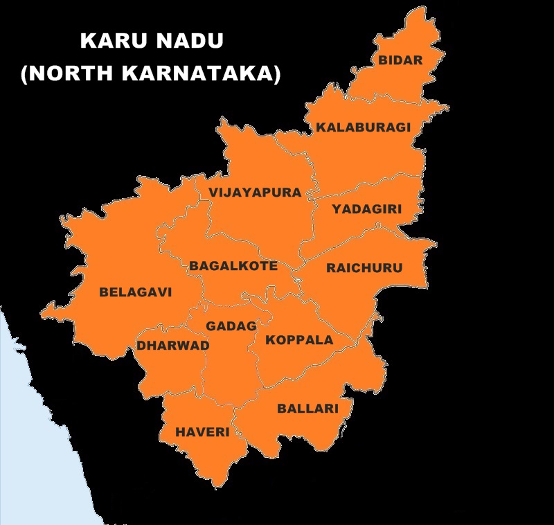 Karu Nadu